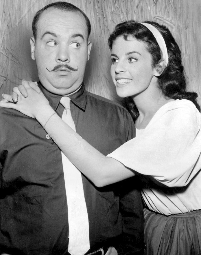 Publicity photo of Claudine Longet and Tim Conway from McHale's Navy.